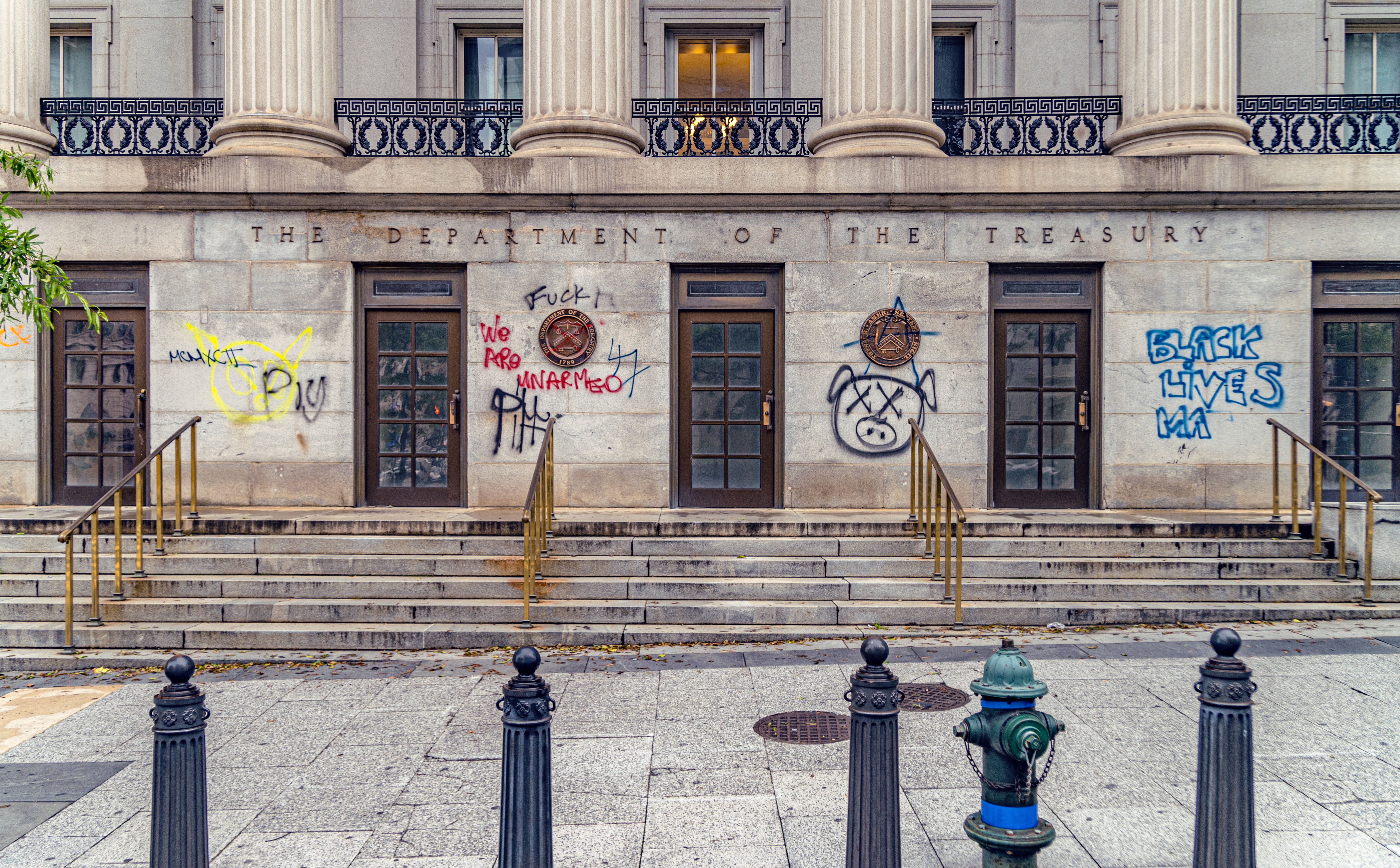 2020.06.05 Protesting the Murder of George Floyd, Washington